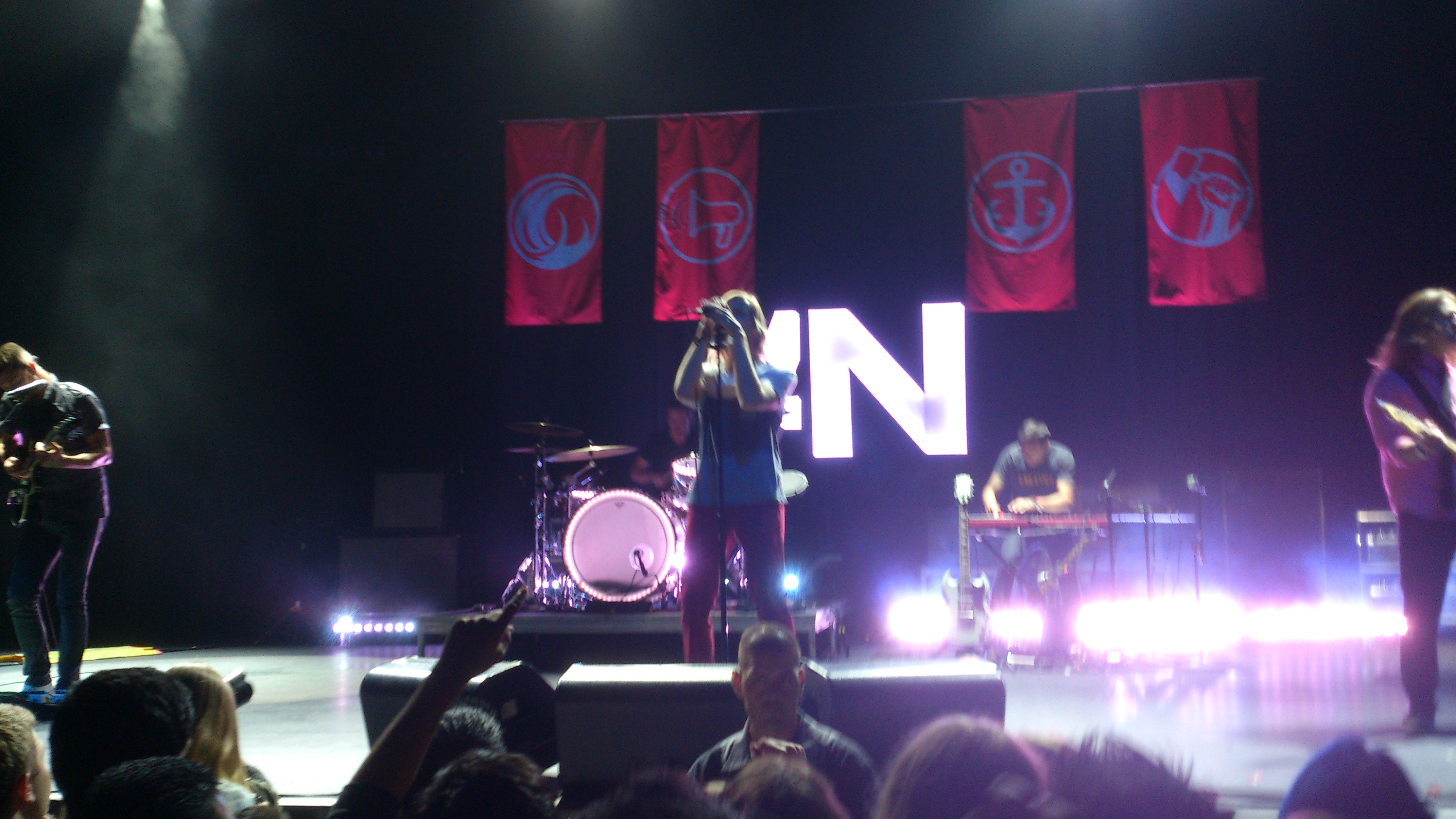 AWOLNATION performing in Los Angeles.